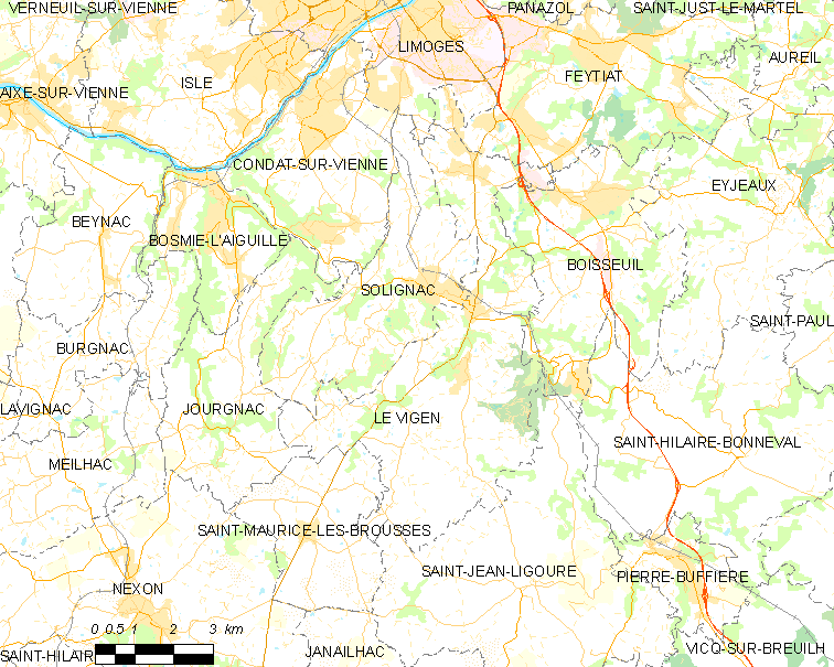 Map of French municipality Le Vigen